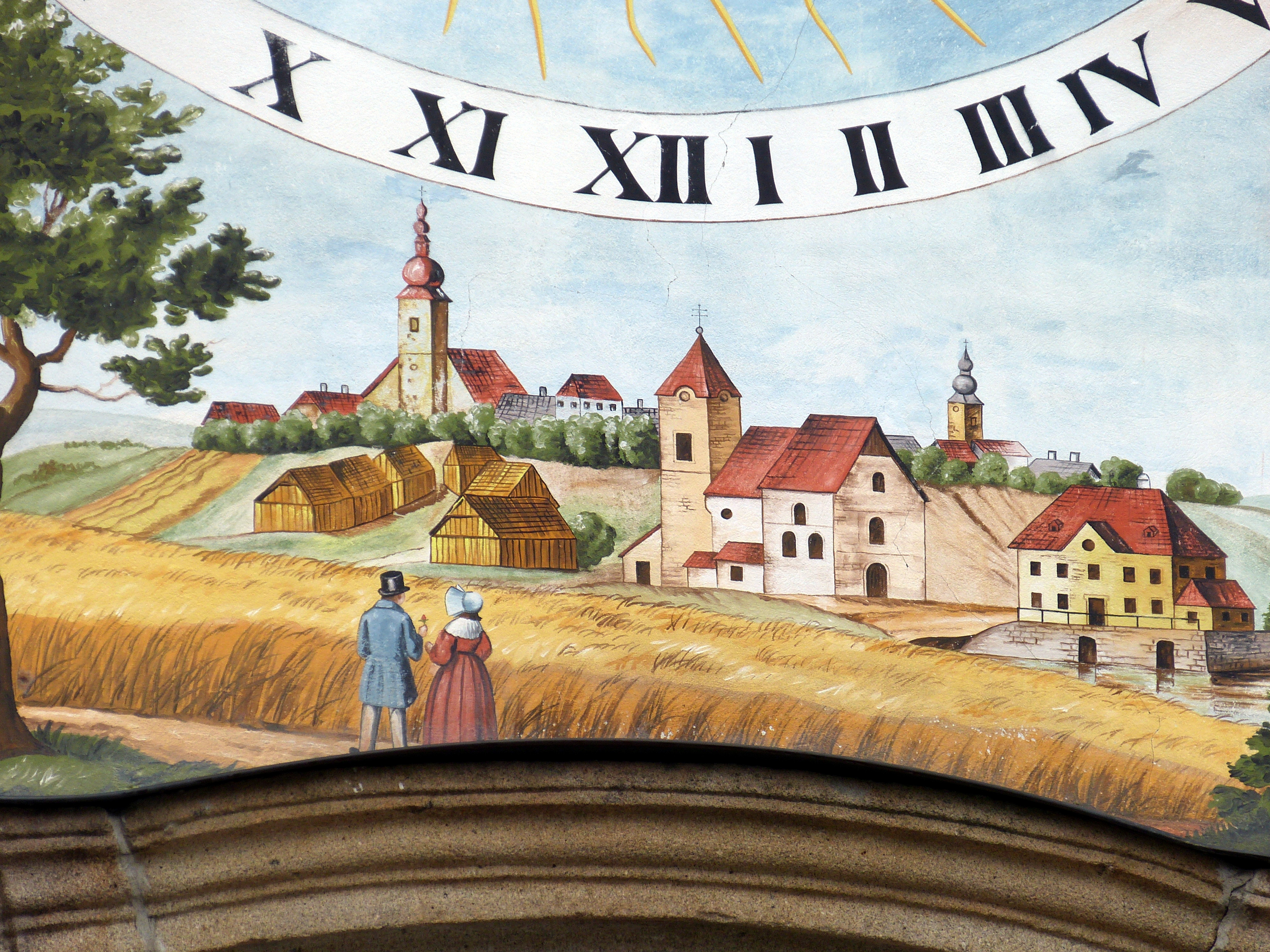 Bad Leonfelden ( Upper Austria ). Maria Schutz am Bründl church: Facade - Sundial ( detail )with view of Bad Leonfelden ( 19th century ).